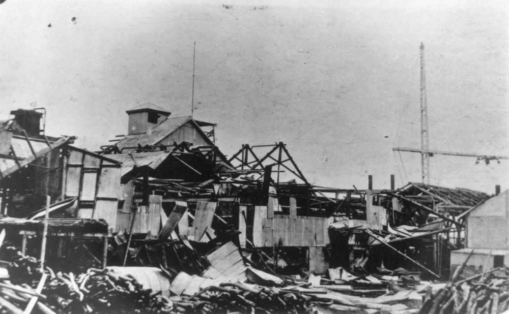 Racecourse Mill after a cyclone in Mackay, 1918 Racecourse Central Mill was devastated, as was most of Mackay, after the 1918 cyclone. The mill started operating in 1889 and after being rebuilt, is still operating in 2008.